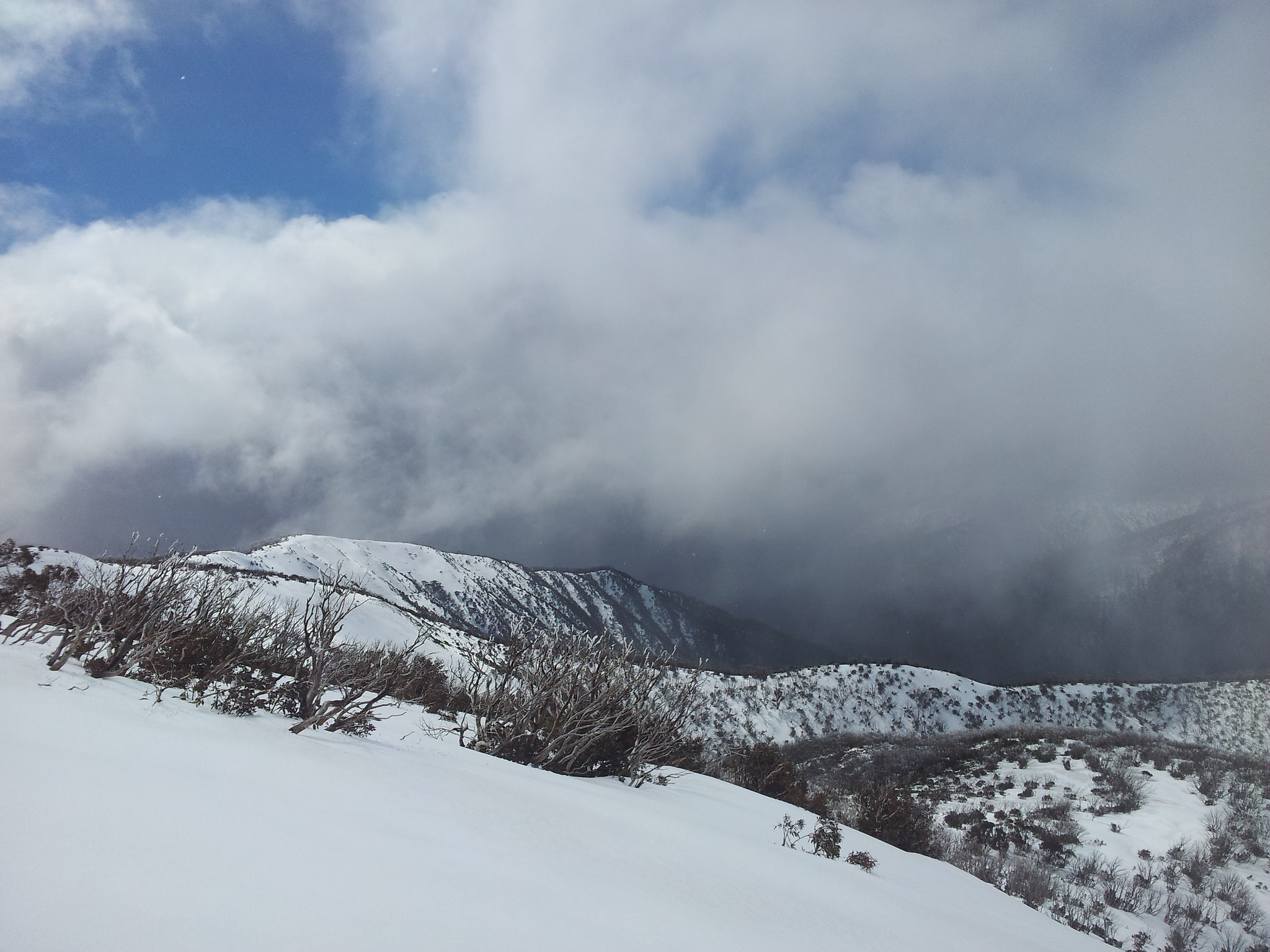 Back Country Mount Hotham